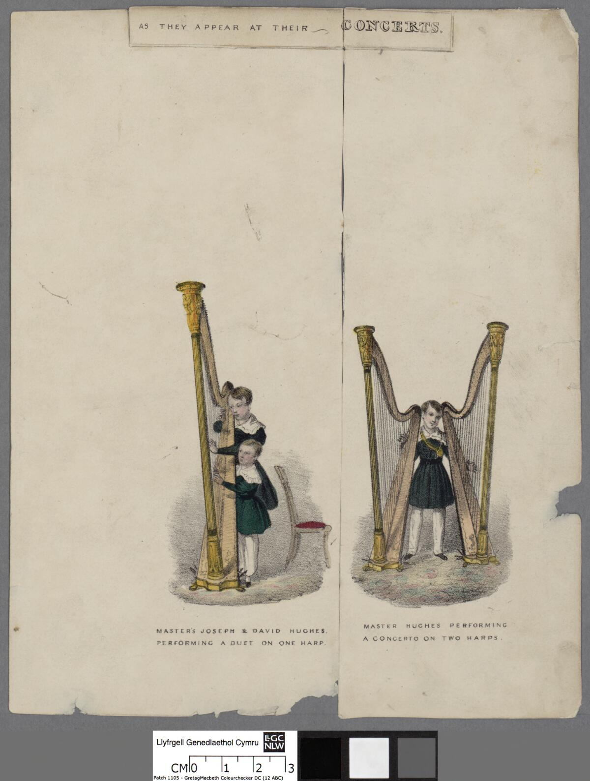 A portrait from the Welsh Portrait Collection at the National Library of Wales. Depicted person: Joseph Tudor Hughes – boy harpist (1827 -1841)